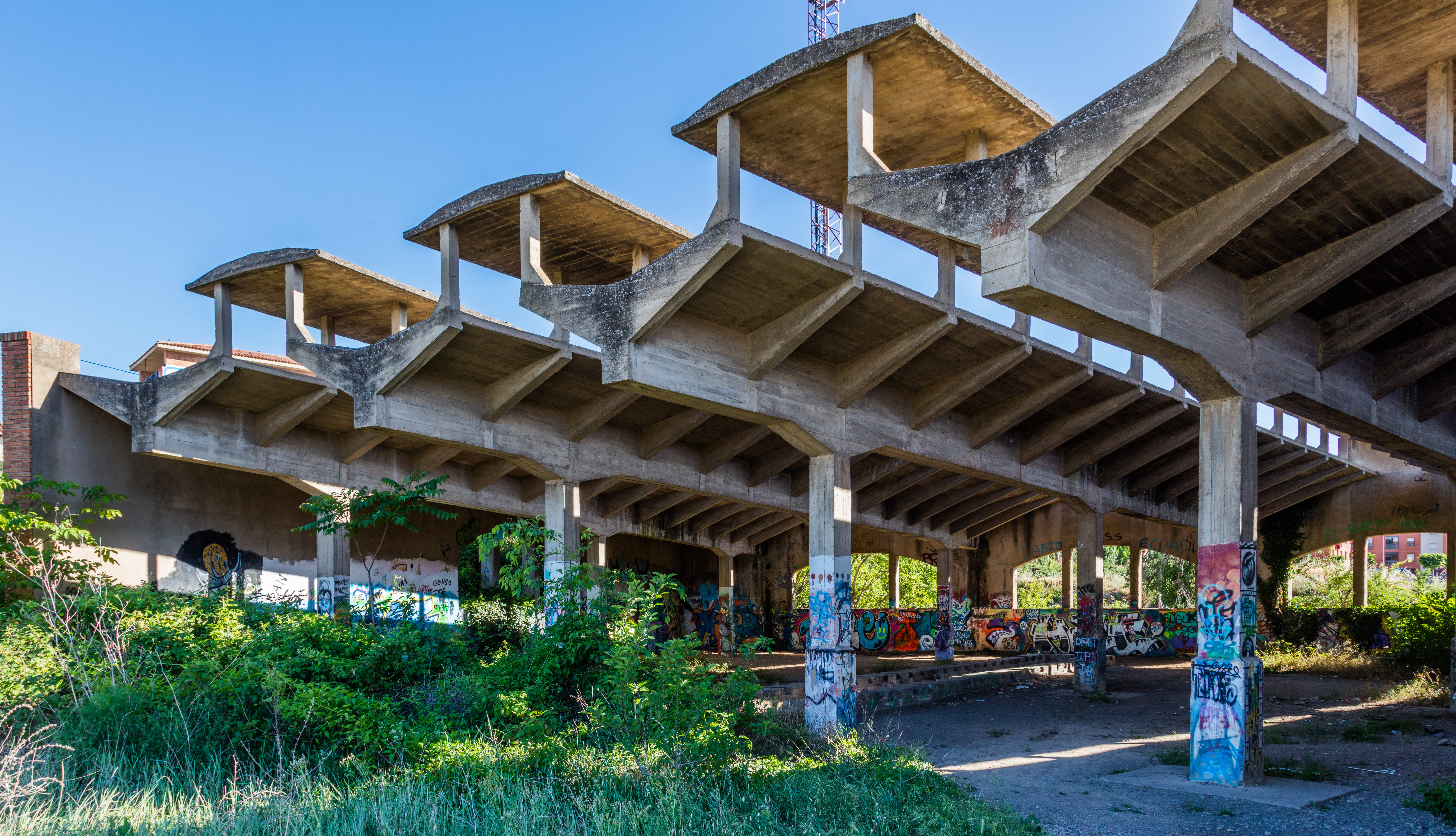 Railway machine room, Tarazona, Spain